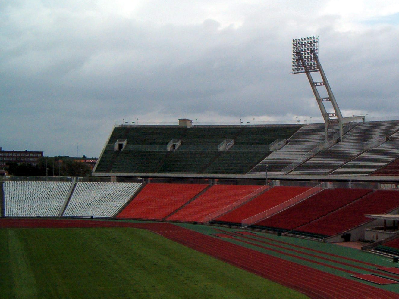 Part of the stands of the legendary Puskas Ferenc Stadion. Made the image myself in the summer of 2004.